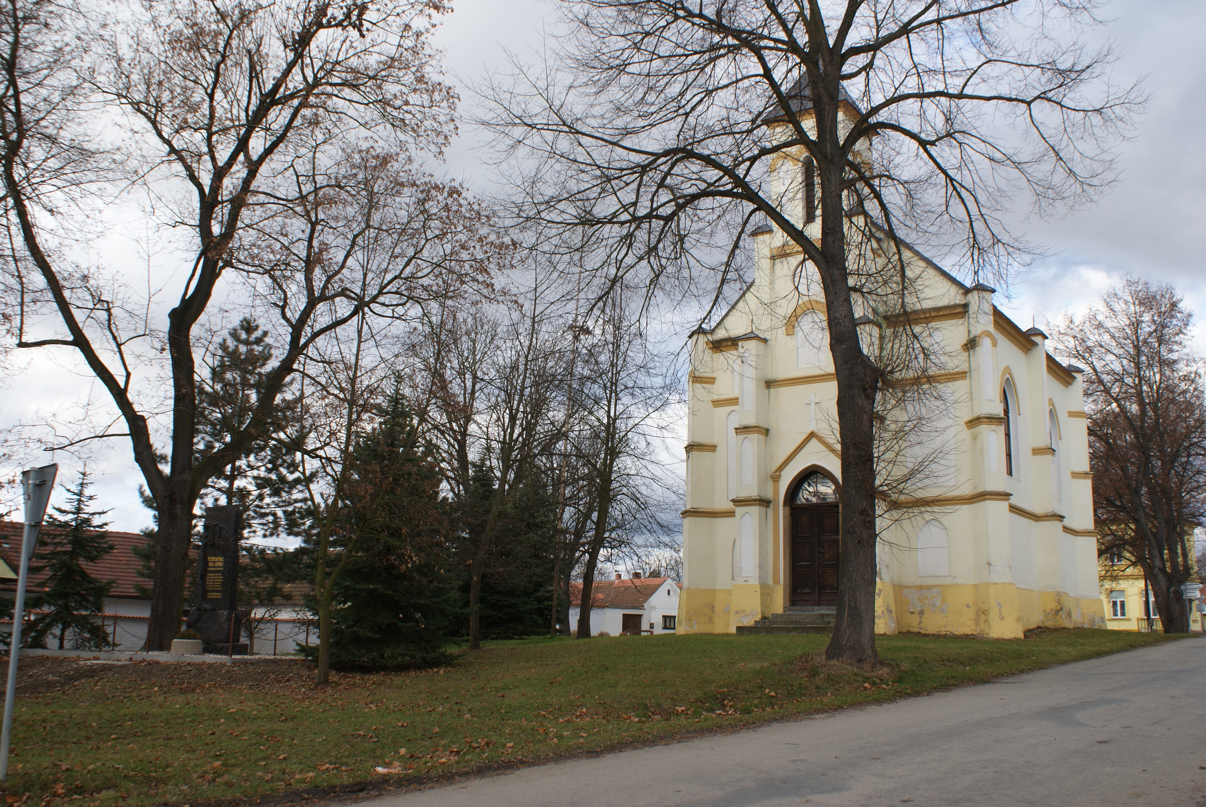 Chapel in Číčenice, Strakonice District, CZE